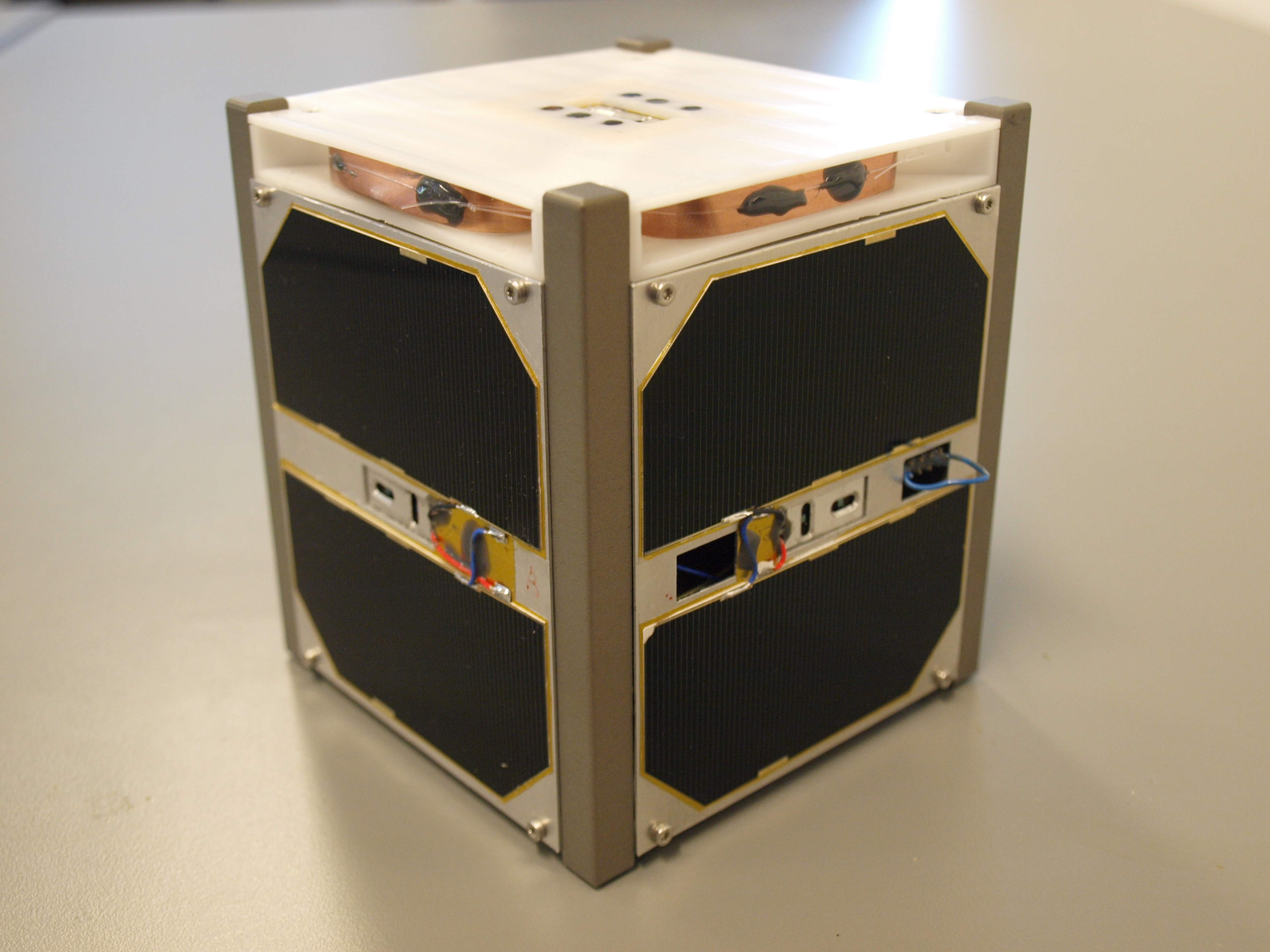 AAUSAT3 FM from Student Satlab Aalborg University, Denmark. Picture taken autumn 2012 before shipment to launch.